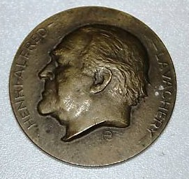 Medal of Henry Lavachery °1885 +1972 Belgian Archeologist, explorer of the Easter Island.